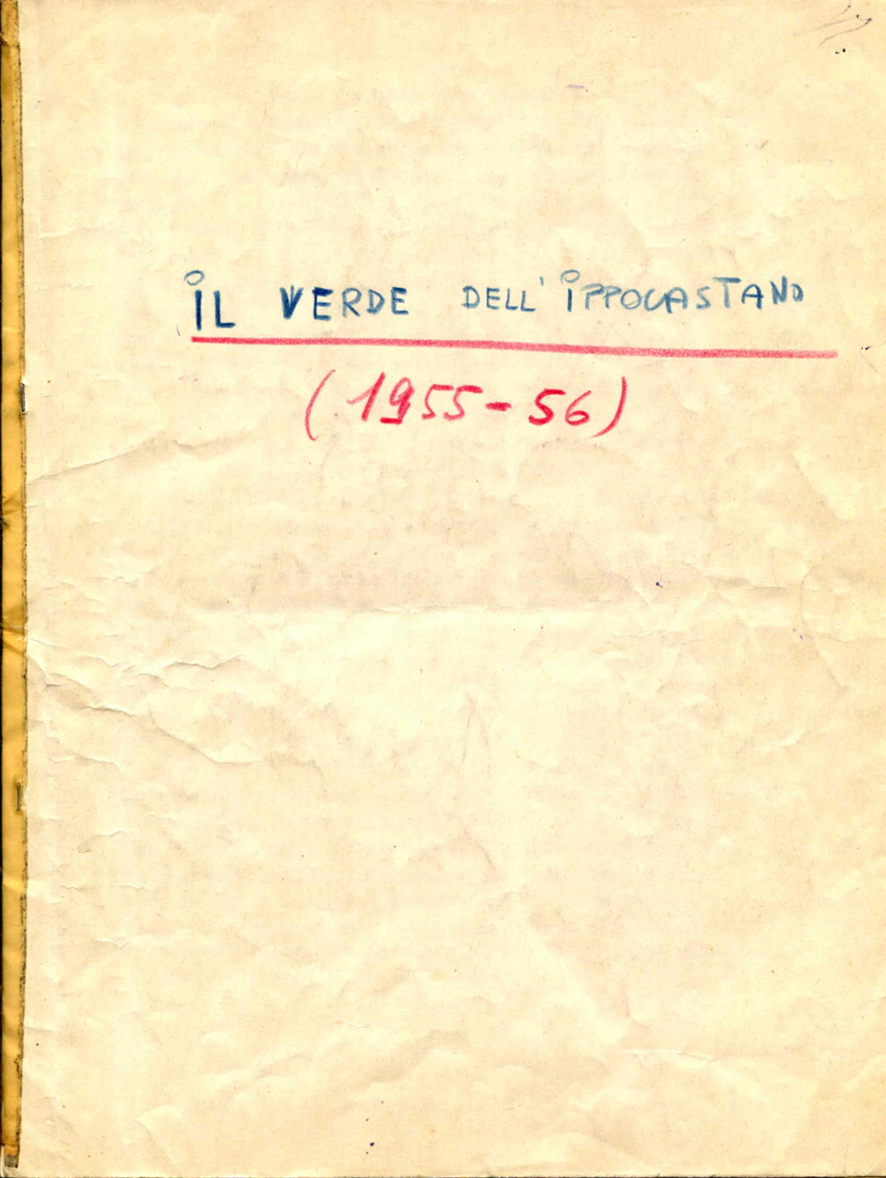 Manuscript cover of the first poems by the Italian writer Mario Biondi 1955 - 1956